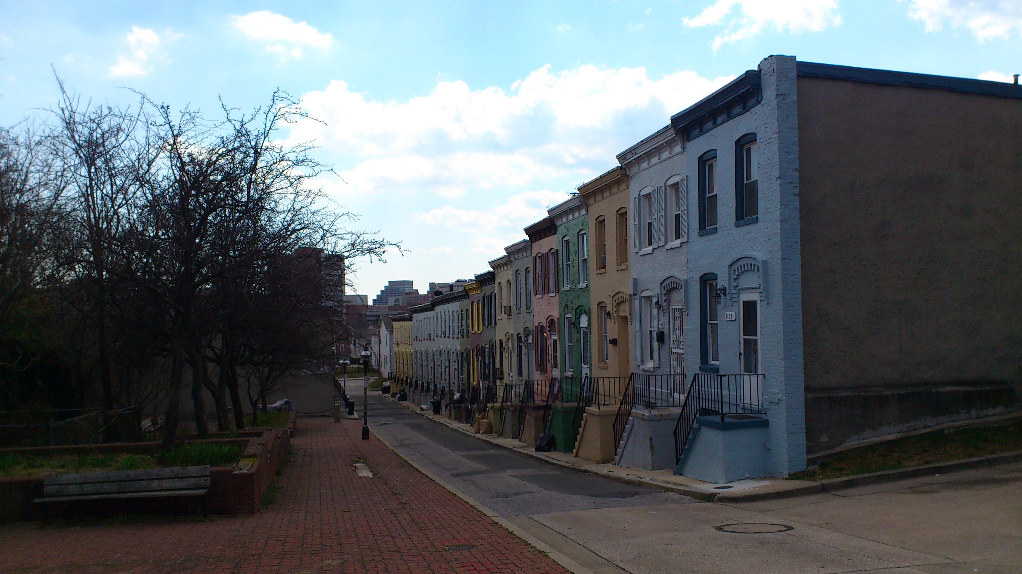 1100 block Shields Place, Harlem, Baltimore